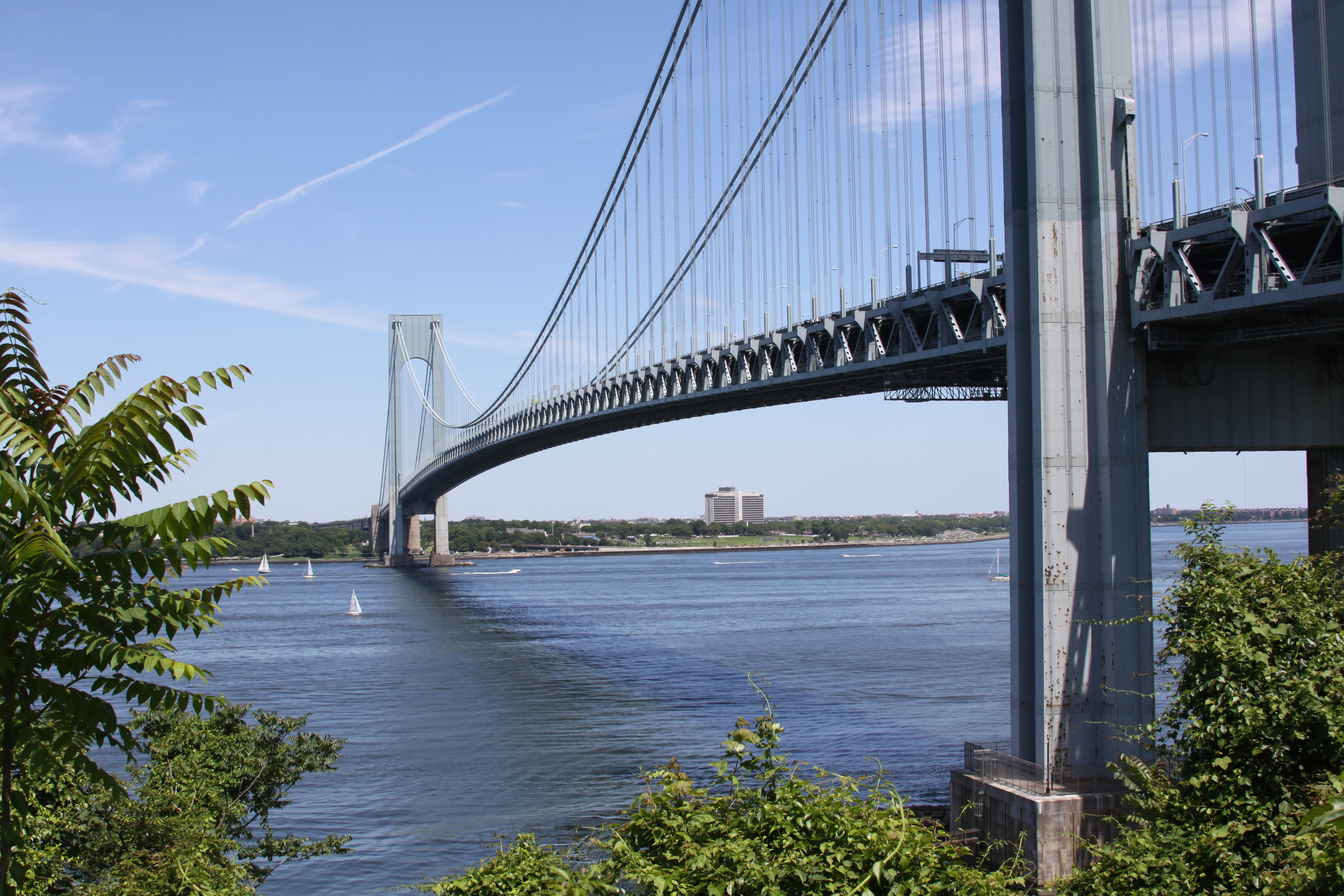 Verrazano - Narrows Bridge